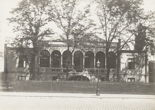 Kongens klub's summer premisses at present day Axeltorv in Copenhagen, Denmark